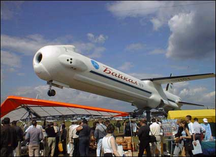 Russian Reusable Baikal "Flyback" Booster on display at 2001 Paris Air Show